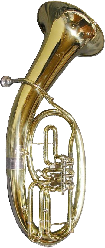 Tenorhorn MIRAPHONE 47W